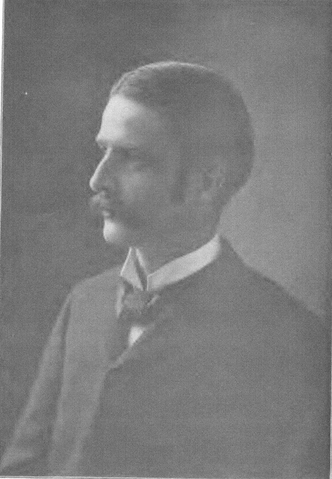 B&W image of Charles Emerson Beecher, American paleontologist. From obituary frontispiece (p406)[1]. Reprinted in Raymund (1920).[2]